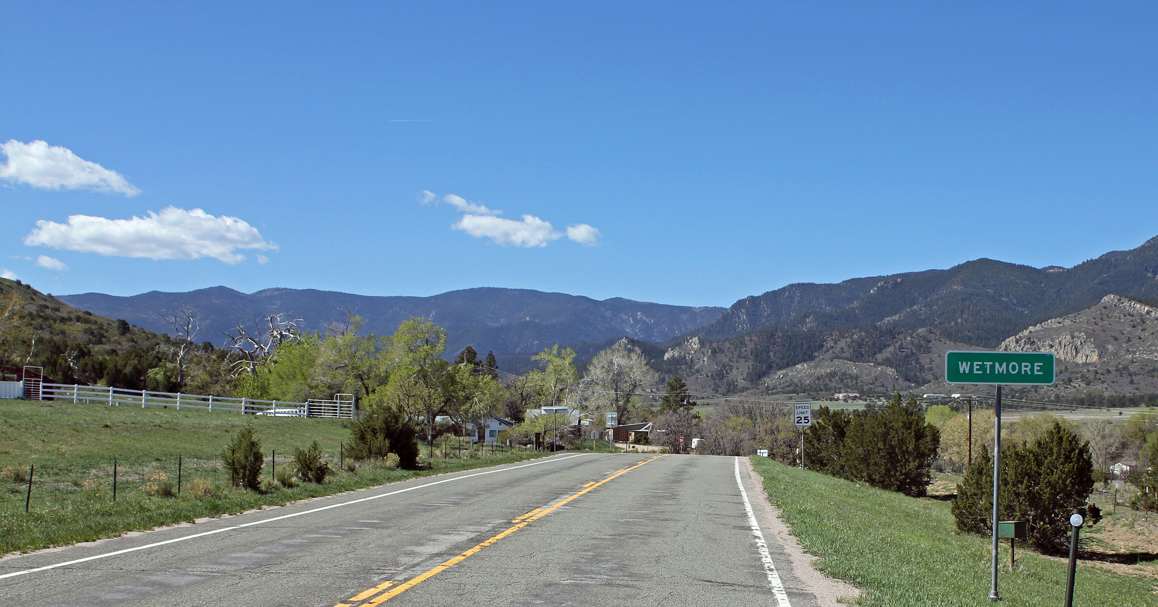 Entering Wetmore, Colorado on Colorado State Highway 96. The mountains in the background are the Wet Mountains.